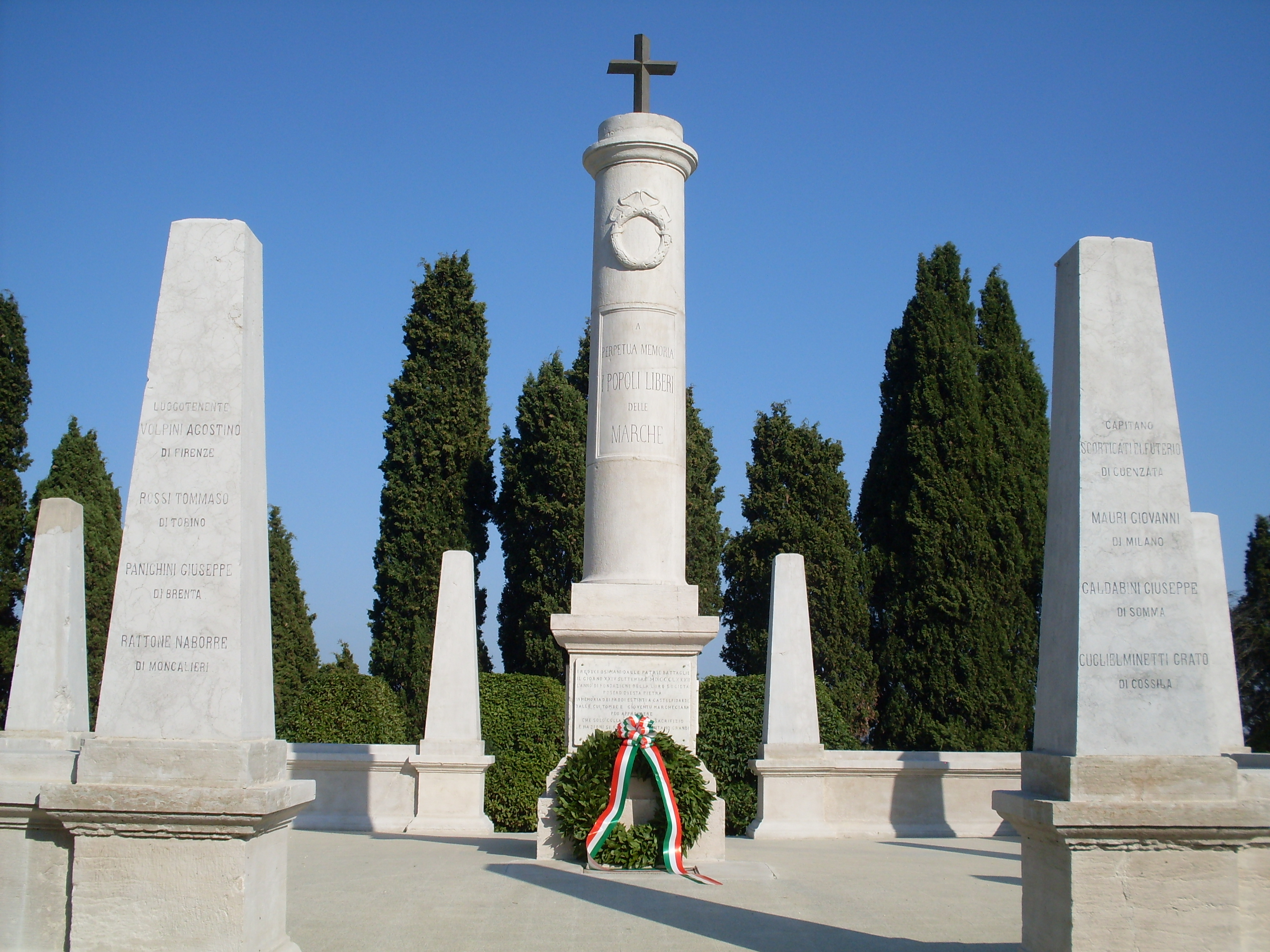 War merorial after the battle of Castelfidardo (AN) - Italy in 18 september 1861, after being restored for 150 years of unity of Italy.